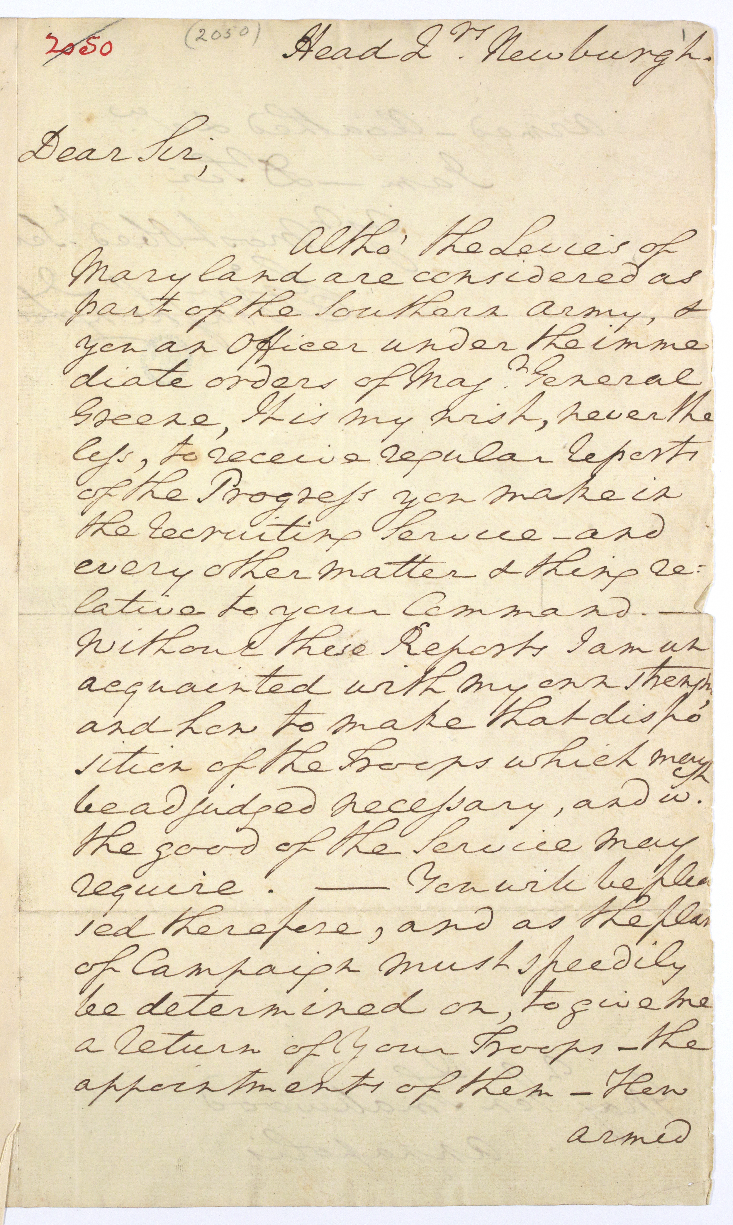 First page of a letter sent by George Washington from his headquarters in Newburgh, New York to Major General William Smallwood in Annapolis, Maryland. This letter was written in July 1782 during the American War of Independence. In the letter Washington asks Smallwood for reports of the progress he is making in recruiting troops and how they are being armed and clothed. Smallwood was in charge of the American troops in Annapolis. NLS Shelfmark: MS.594, No. 2050 (ff. 1-2). By kind permission of the Trustees of the National Galleries of Scotland